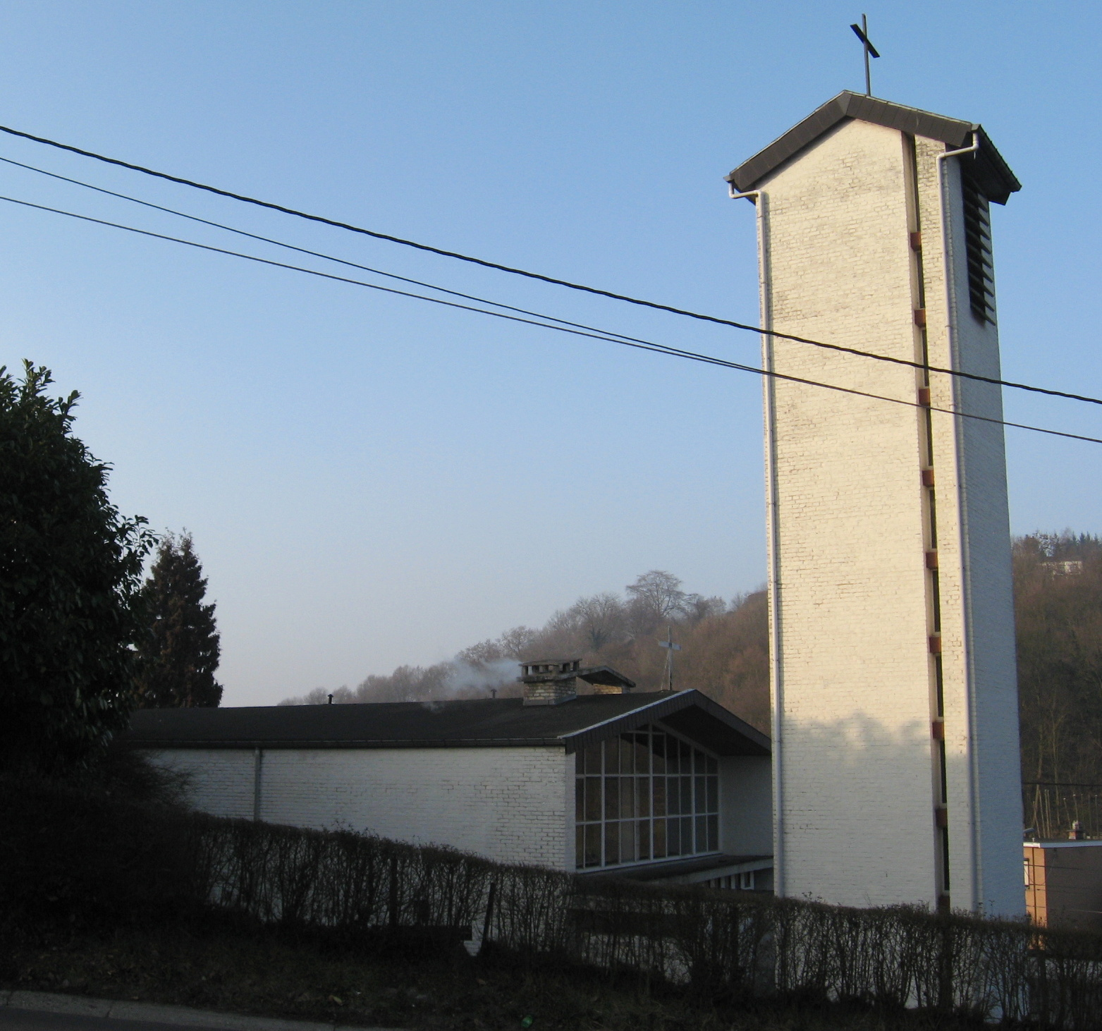 Church of the Blessed Virgin Mary in Moulins-sous-Fléron, Beyne-Heusay, Liège, Belgium